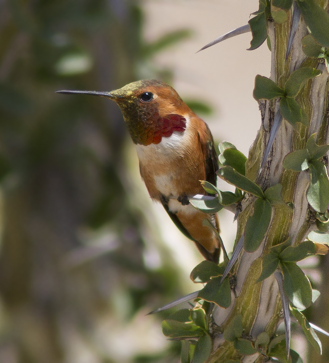 Allen's Hummingbird (Selasphorus sasin), Colorado Desert, California